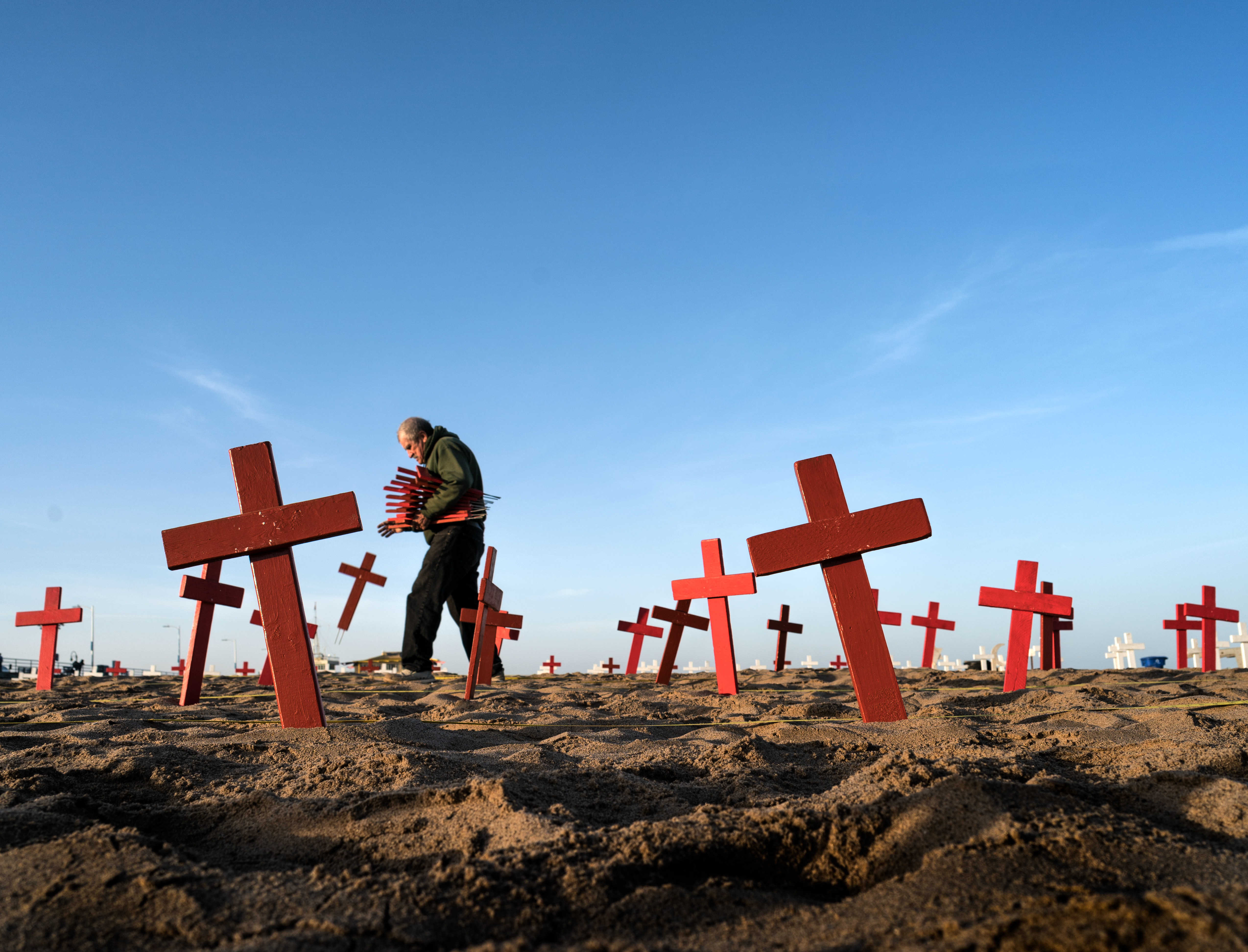 Arlington West of Santa Monica, a project of Veterans for Peace. Vietnam Veteran, Michael Lindley, places crosses at Santa Monica Beach in Santa Monica, California. He's been placing them there every Sunday; this day marked his 14th year to the day.